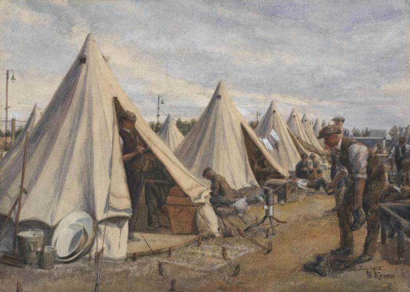 P.o.w. Camp, a Sunday Morning, July 1915 image: a view along a row of circular tents surrounded by bowls, buckets brushes, boxes and trunks. In the foreground a man in a cap stands smoking at the door of the nearest tent, while another stands just outside, polishing his shoes. In the background men sit around in groups inside and outside the tents.